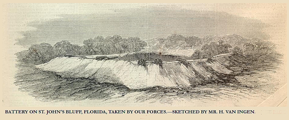 Sketched by Mr. H. Van Ingen, published in Harper's Weekly, October 25, 1862